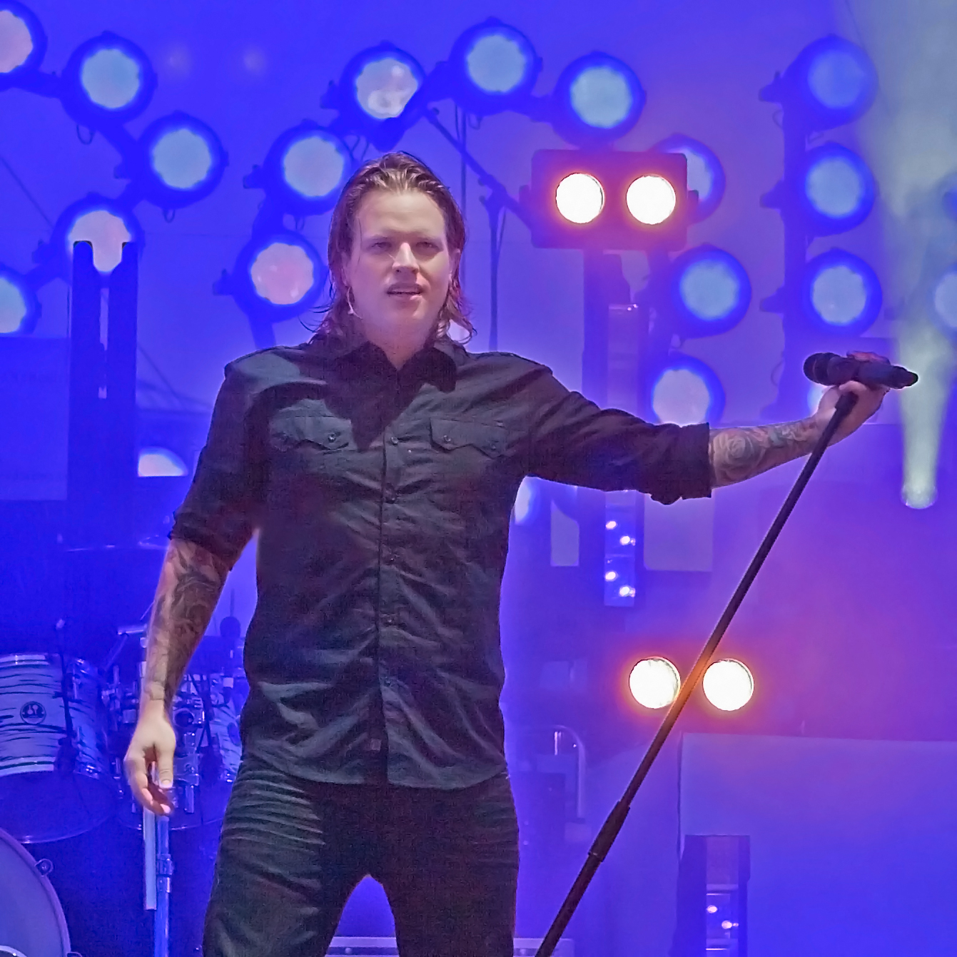 LOVE Stockholm 2010, Takida with Robert Pettersson